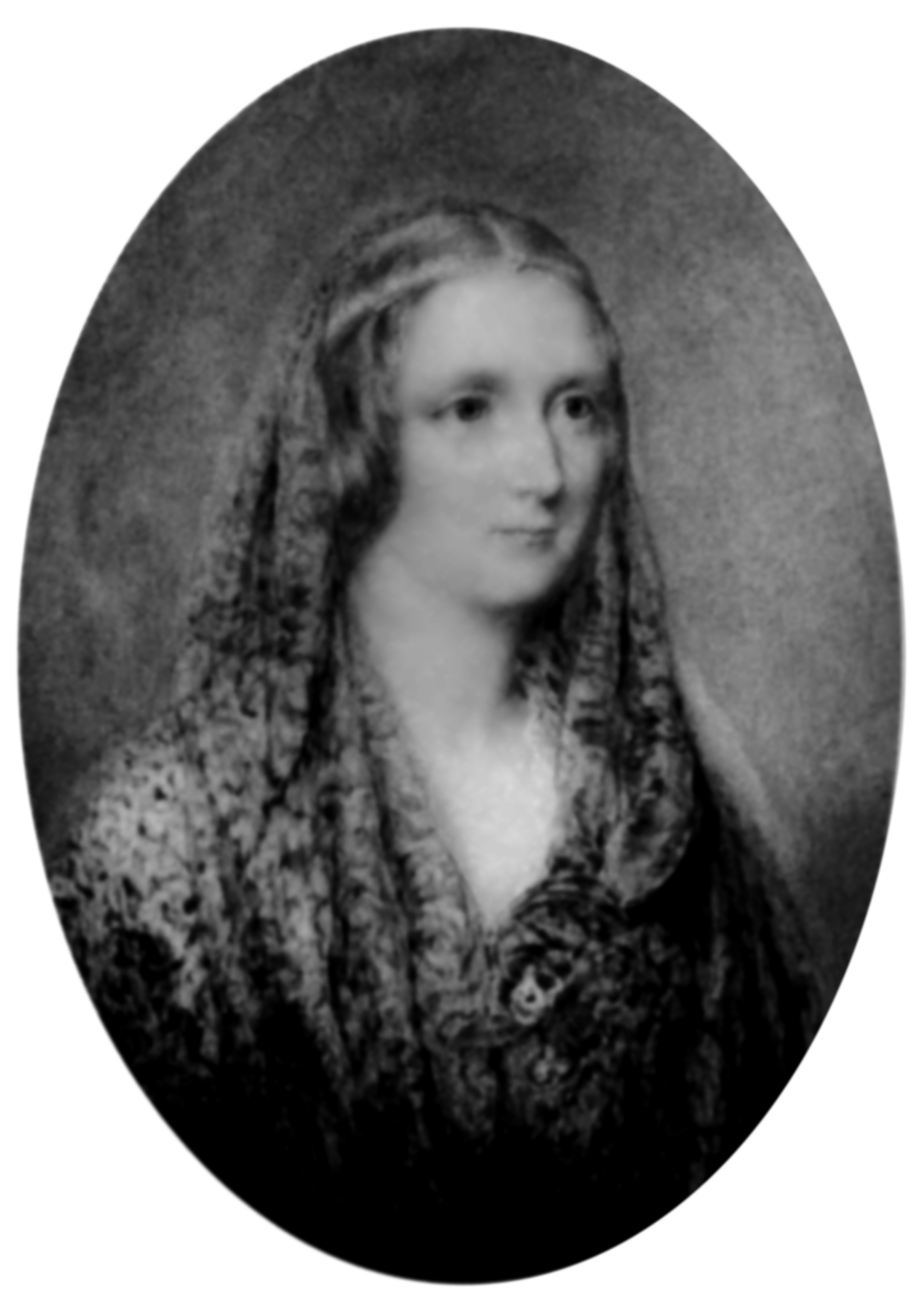 Reginald Easton painted this miniature portrait of Mary Shelley, on a flax coloured background. It incorporates a circlet backed by blue, the same seen in the Rothwell painting and a shawl.[1][2]